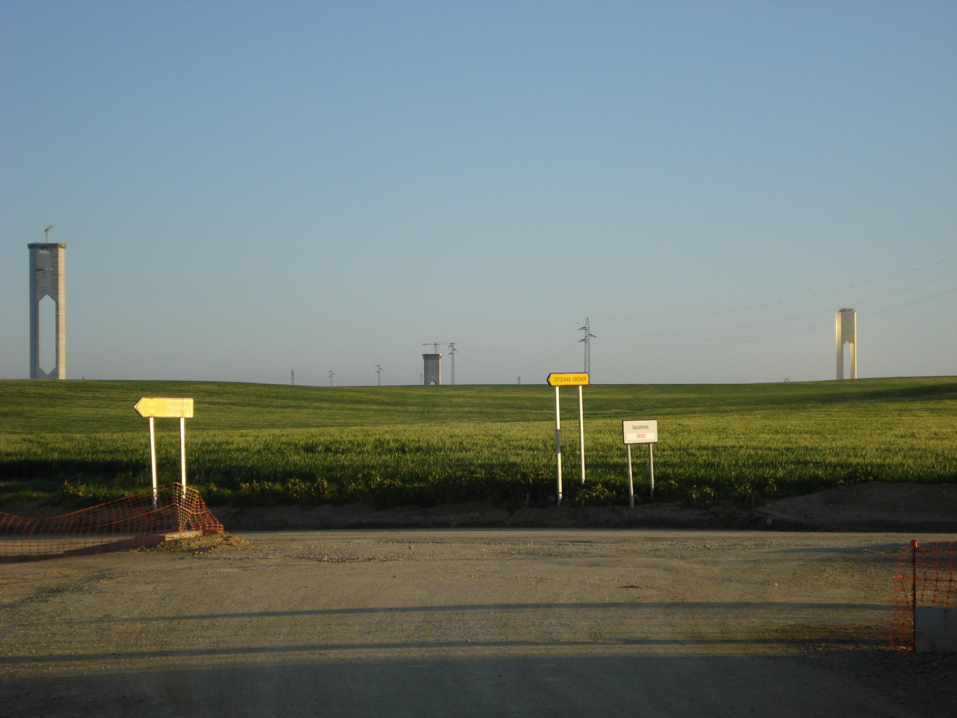 Three Solar Towers near Seville Spain, PS20 , Eureka 5 and PS10